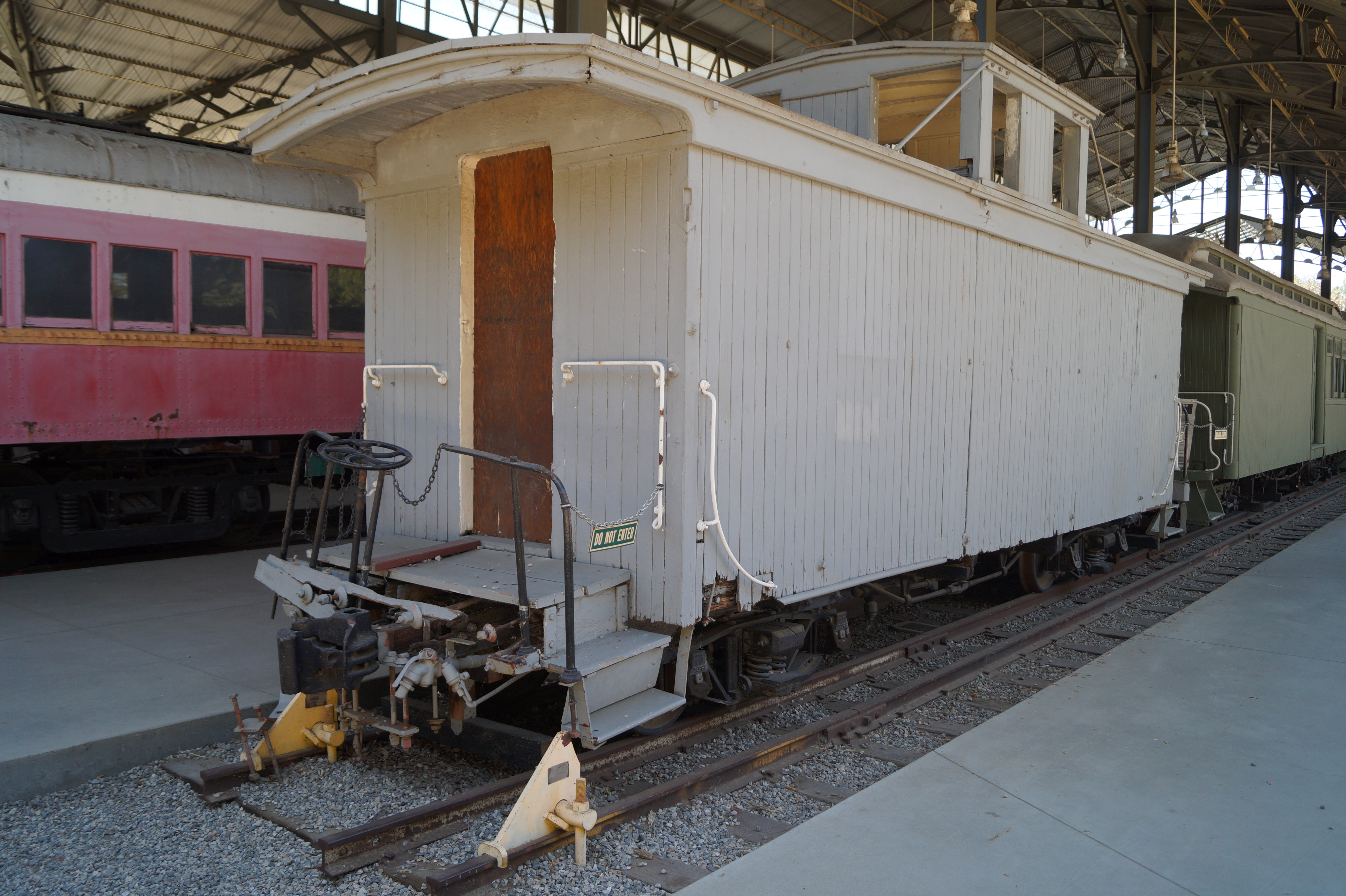 Travel Town Museum is a transport museum dedicated in the northwest corner of Los Angeles, California's Griffith Park. The history of railroad transportation in the western United States from 1880 to the 1930s is the primary focus of the museum's collection, with an emphasis on railroading in Southern California and the Los Angeles area.